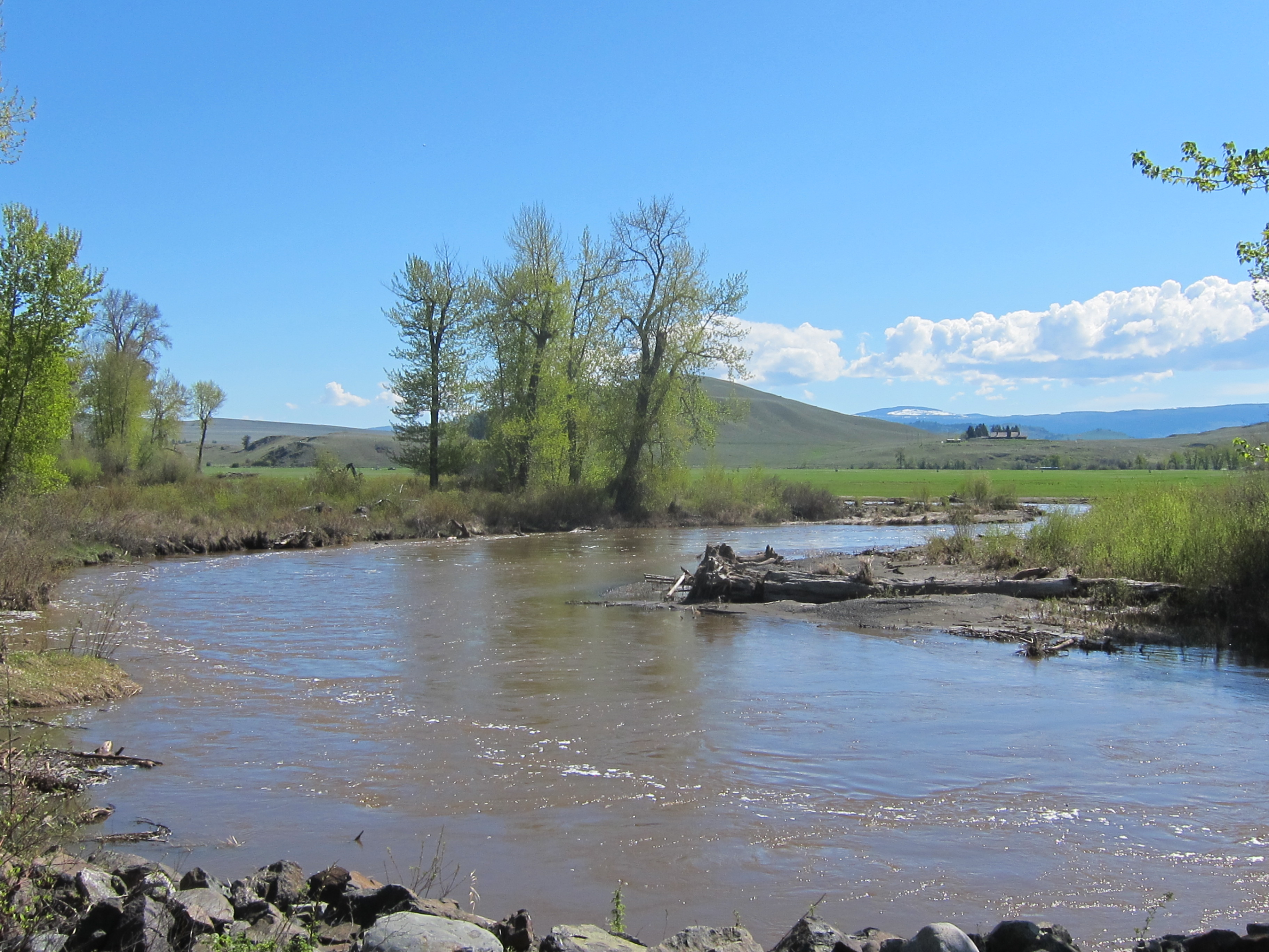 The Nicola River, near Douglas Lake in the British Columbia Interior. The river is in spring flood in this image.